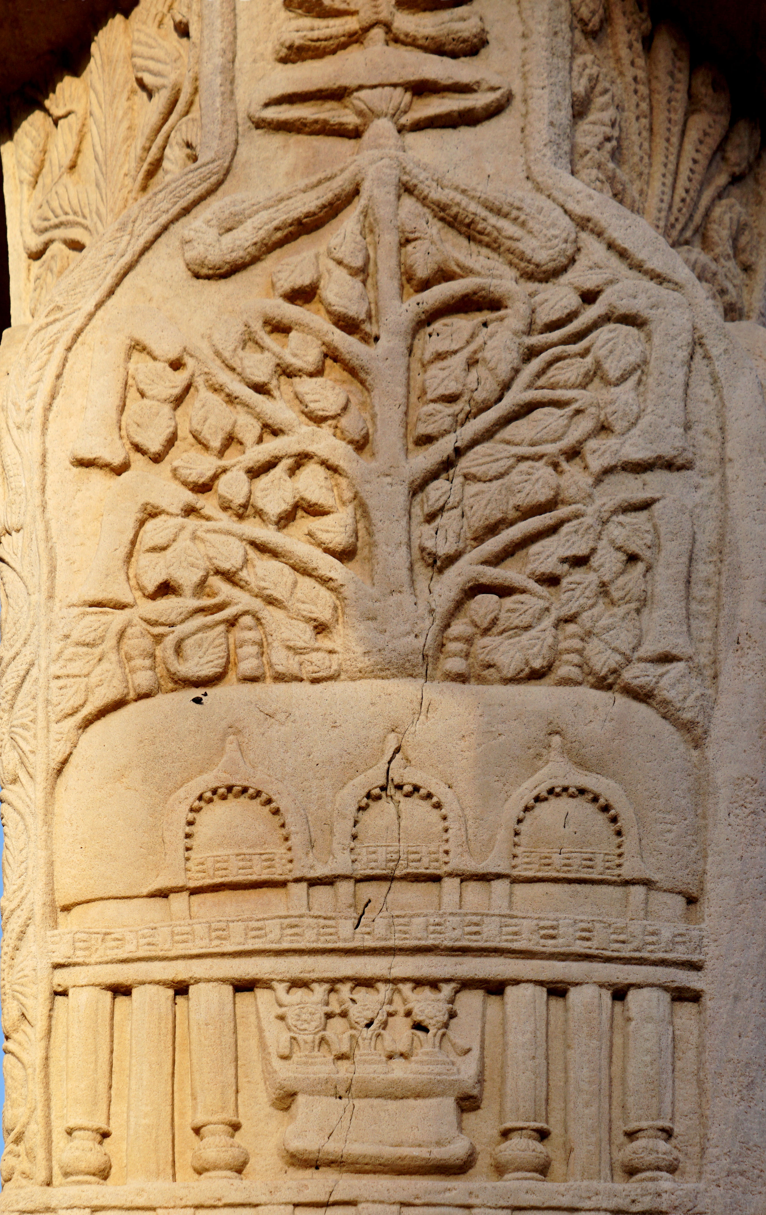 Bodhi tree temple depicted in Sanchi Stupa 1 Southern gateway, photograph by Anandajoti Bhikkhu